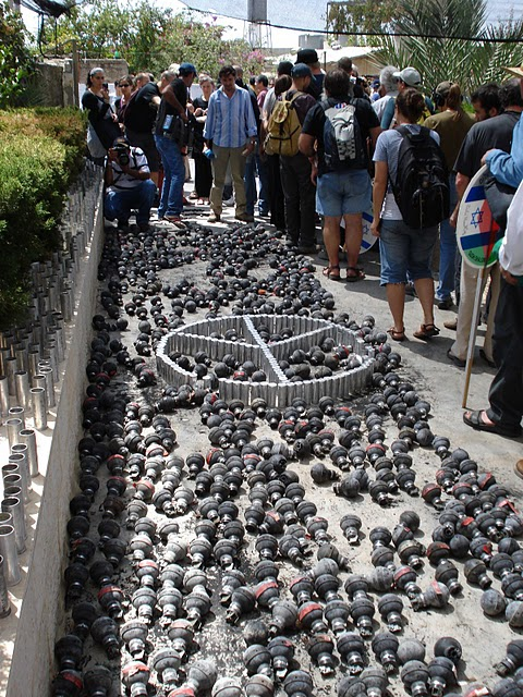 Display made of Israeli tear gas grenades and canisters used against Palestinians and their supporters at the West Bank village of Bil'in over years of protest against the wall which separates the village from about 40% of its land.